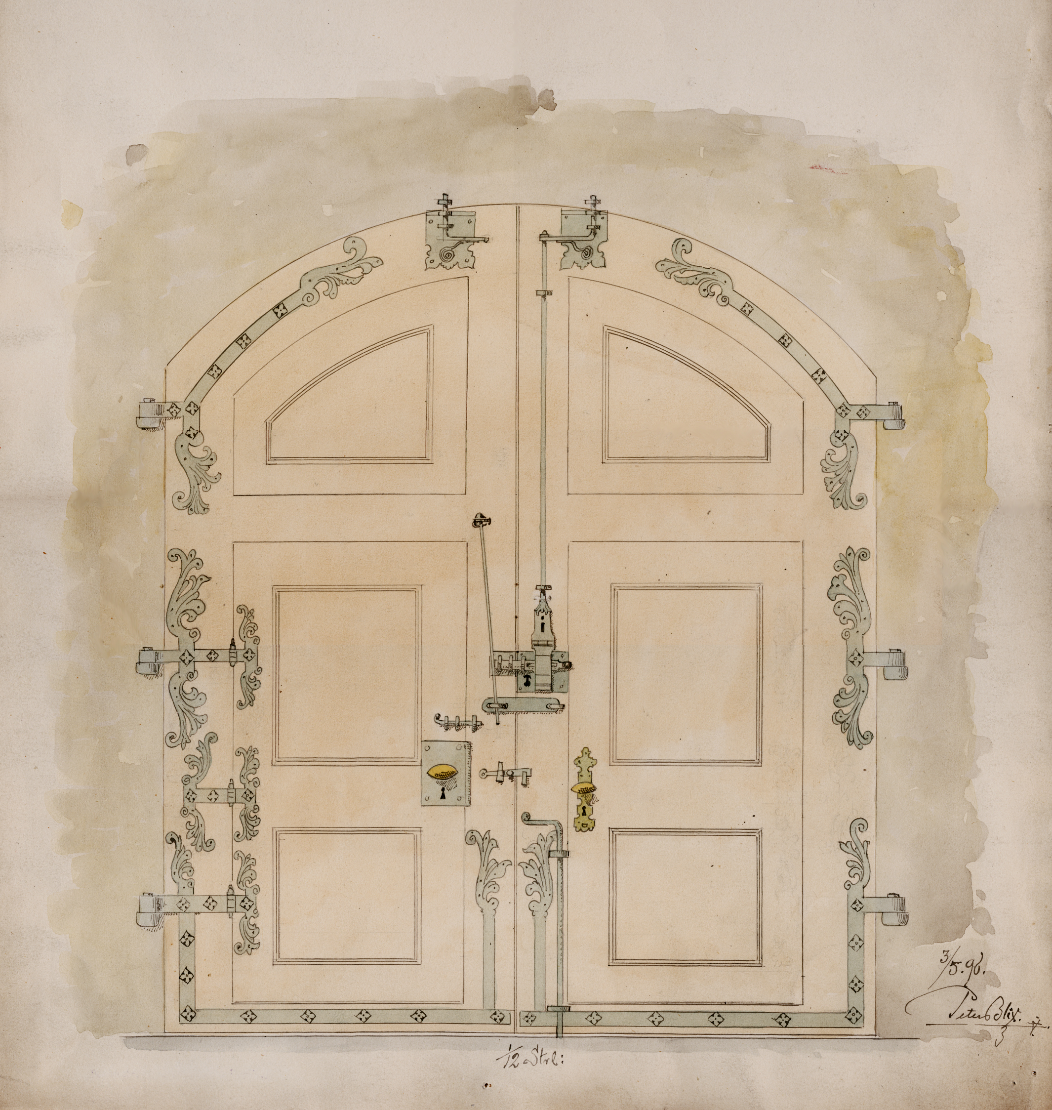 Porte cochère of town house at Rådhusgaten 13, Oslo, erected 1757, demolished 1913, inside. Now at Norsk Folkemuseum, Oslo. Drawing by architect Peter Blix 1896, now in Oslo Museum.